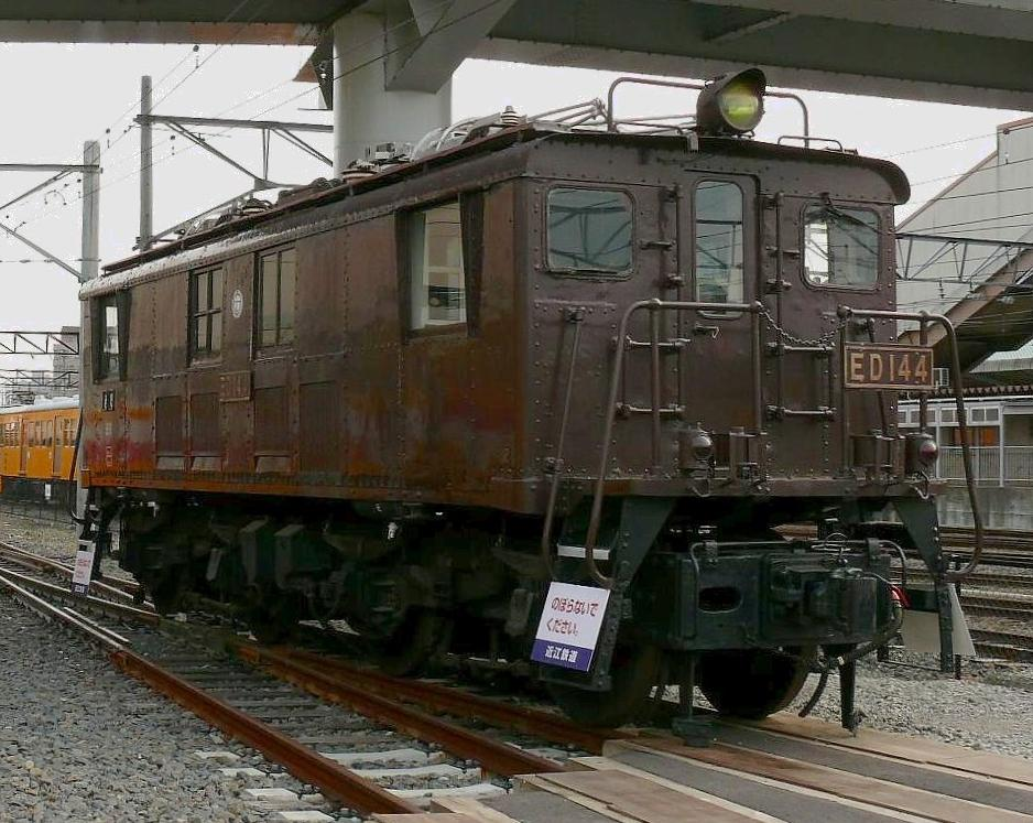 Ohmi-Railway Type ED144 Electric locomotive(Japan). The painting of this locomotive has been returned to the time that belonged to Japanese NationalRailways. Taking a picture from Hikone-Station in Ohmi-Railway-line. See also Ja:国鉄ED14形電気機関車 for more information(written in Japanese). 近江鉄道ED14形電気機関車のED144号機（元国鉄機）。 この機関車は国鉄時代の塗装が復元されている。 彦根駅構内の近江鉄道ミュージアム会場内にて、撮影。